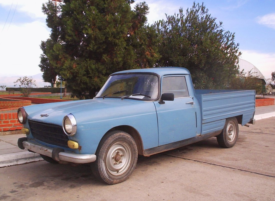 Made in Argentina, by SAFRAR (Sociedad Anónima Franco-Argentina de Automotores)